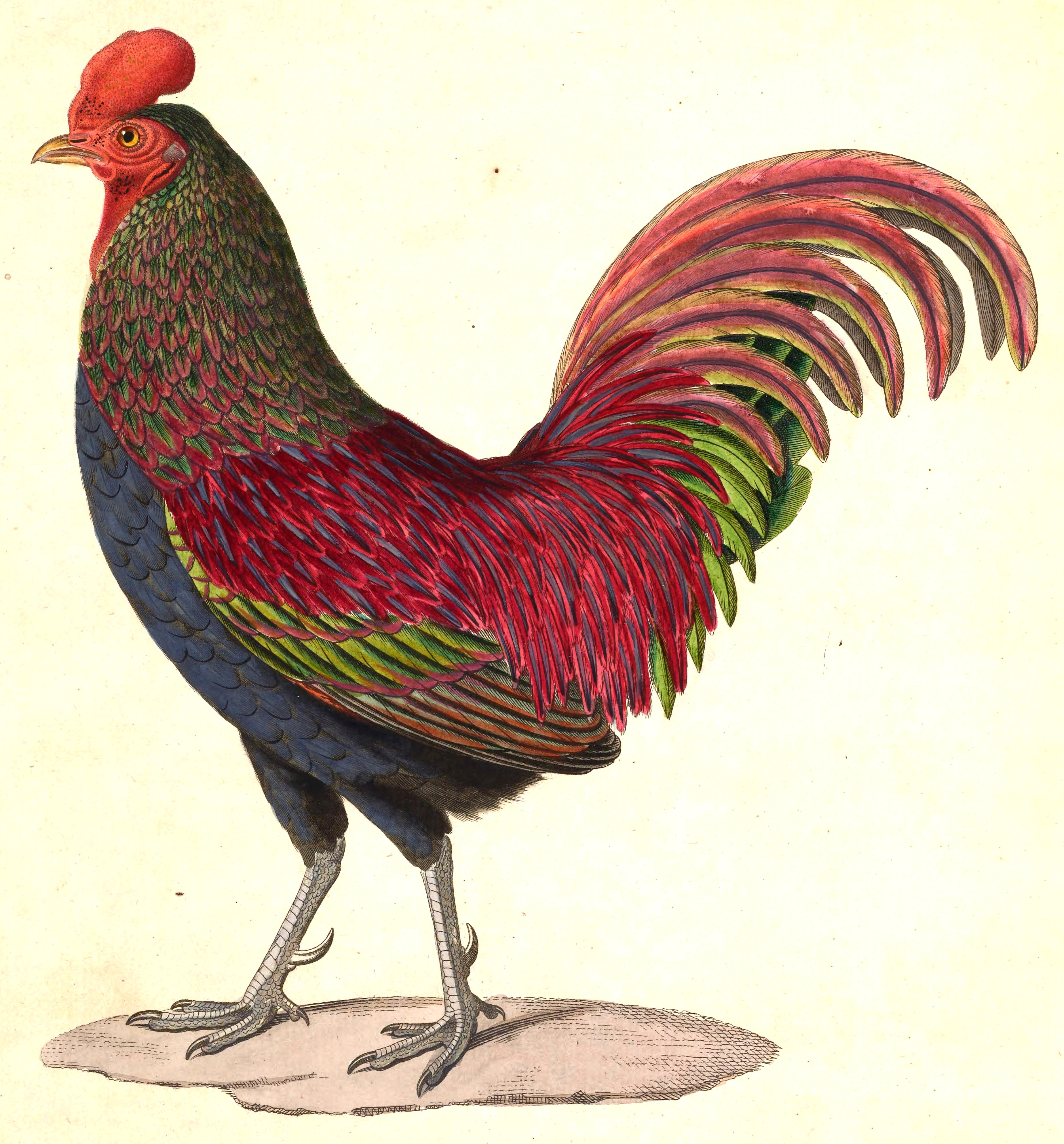 Male hybrid between Gallus varius (Green Junglefowl) and unknown second parent, possibly G. gallus